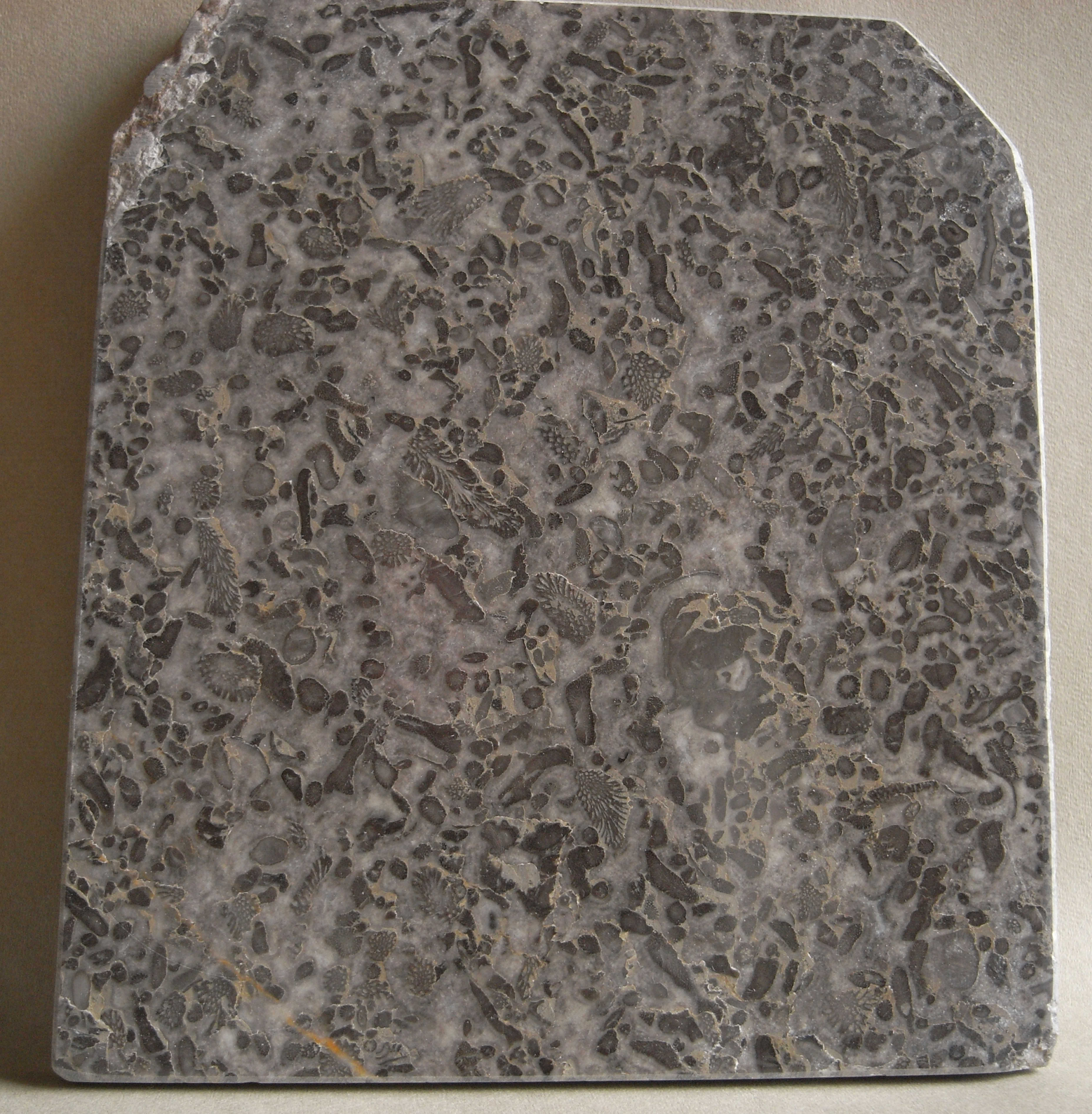 reef limestone (Germany)